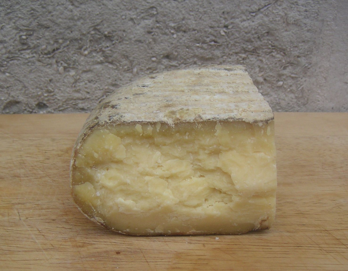 A quartier of a Mahó-Menorca Artesà cheese.